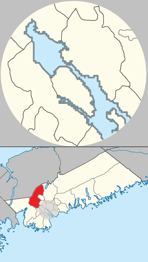 Updated map of Hammonds Plains Sackville Beaverbank planning area in Halifax, Nova Scotia to standard colours, higher resolution, using